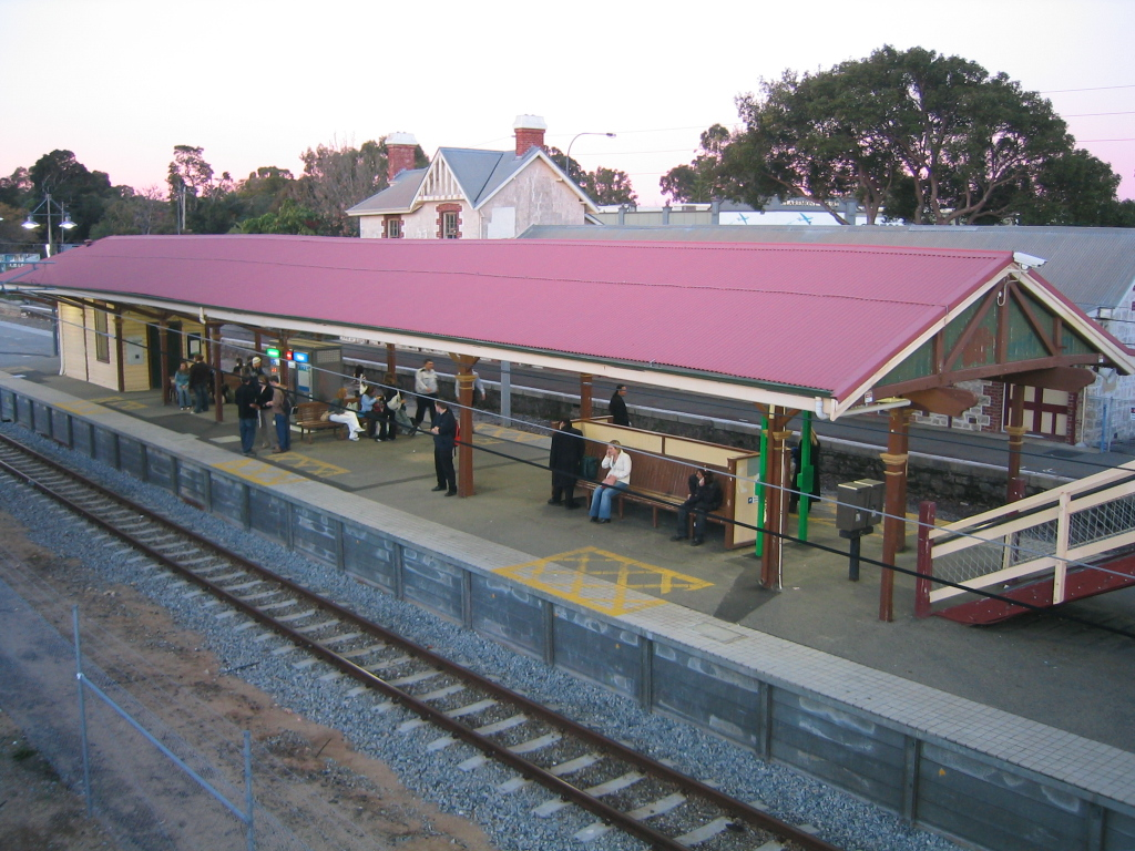 Transperth Claremont Train Station, Perth, Australia